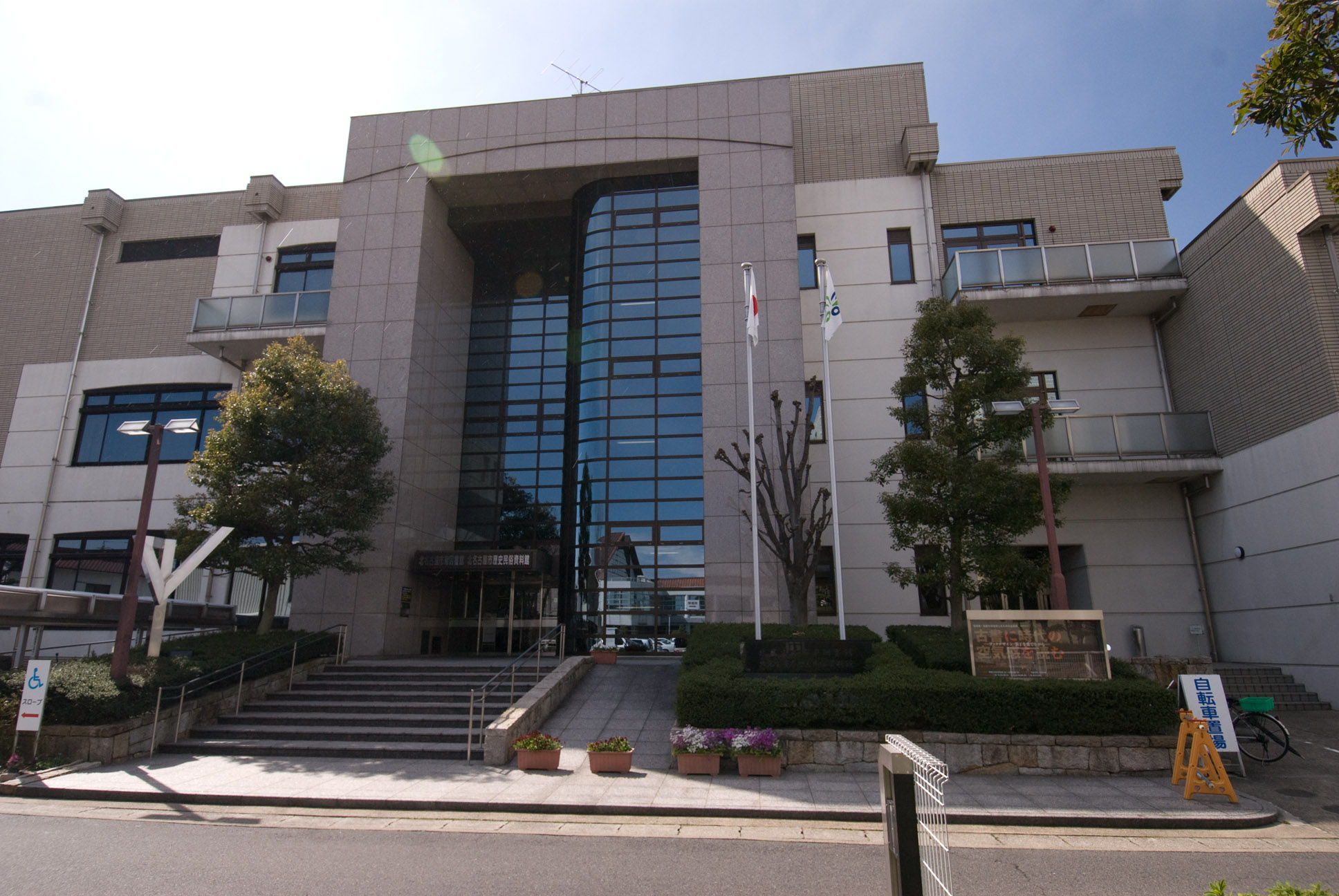 Kitanagoya City East Library